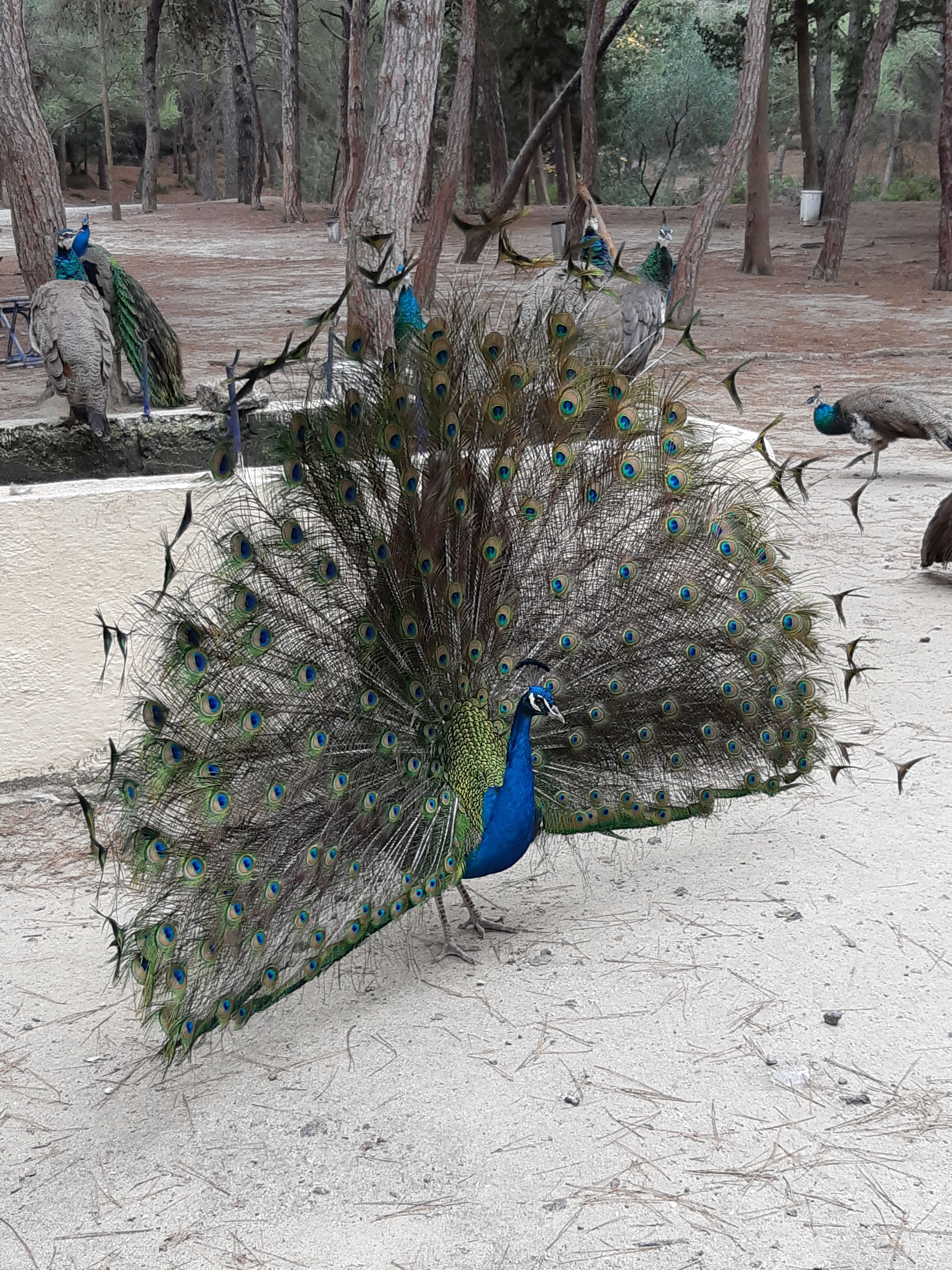 Plaka Forest (Greek: Πλάκα δάσος / Dásos Plákas) on the island of Kos, Greece. Also called "peacock forest"